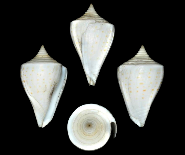 Conus sennottorum Rehder & Abbott, 1951; family Conidae; holotype at the Smithsonian Institution